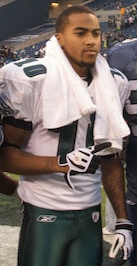 Philadelphia Eagles wide receiver DeSean Jackson posing for a picture after the game against the Seattle Seahawks on November 2, 2008 at Qwest Field. The Eagles defeated the Seahawks 26-7.